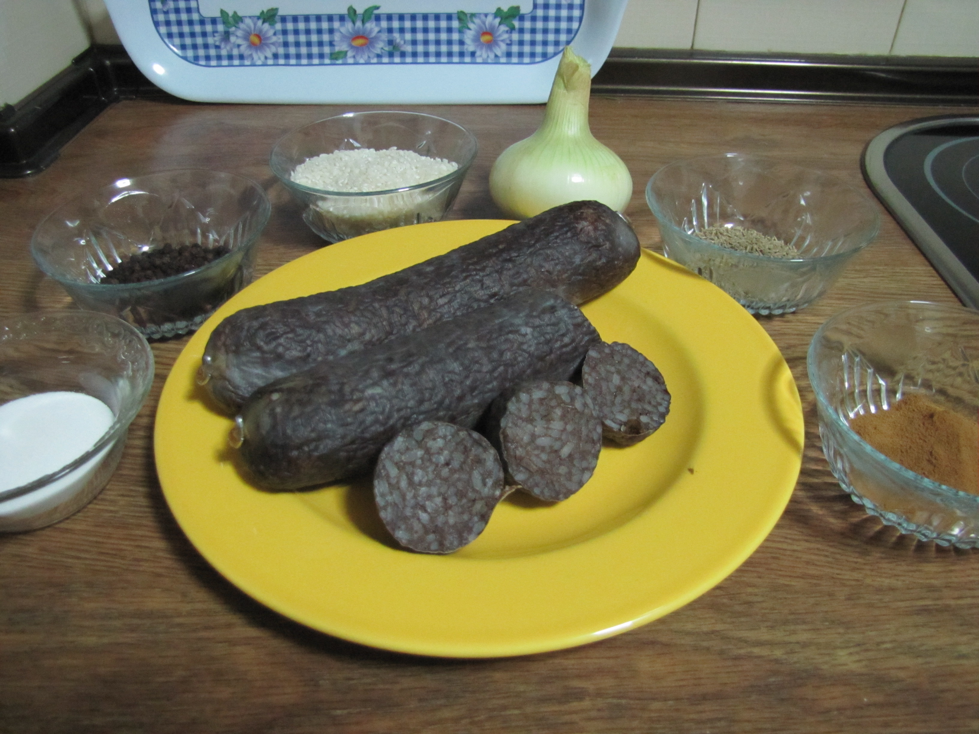 Black Pudding of Aranda, Morcilla de Aranda, Morcilla de Burgos.